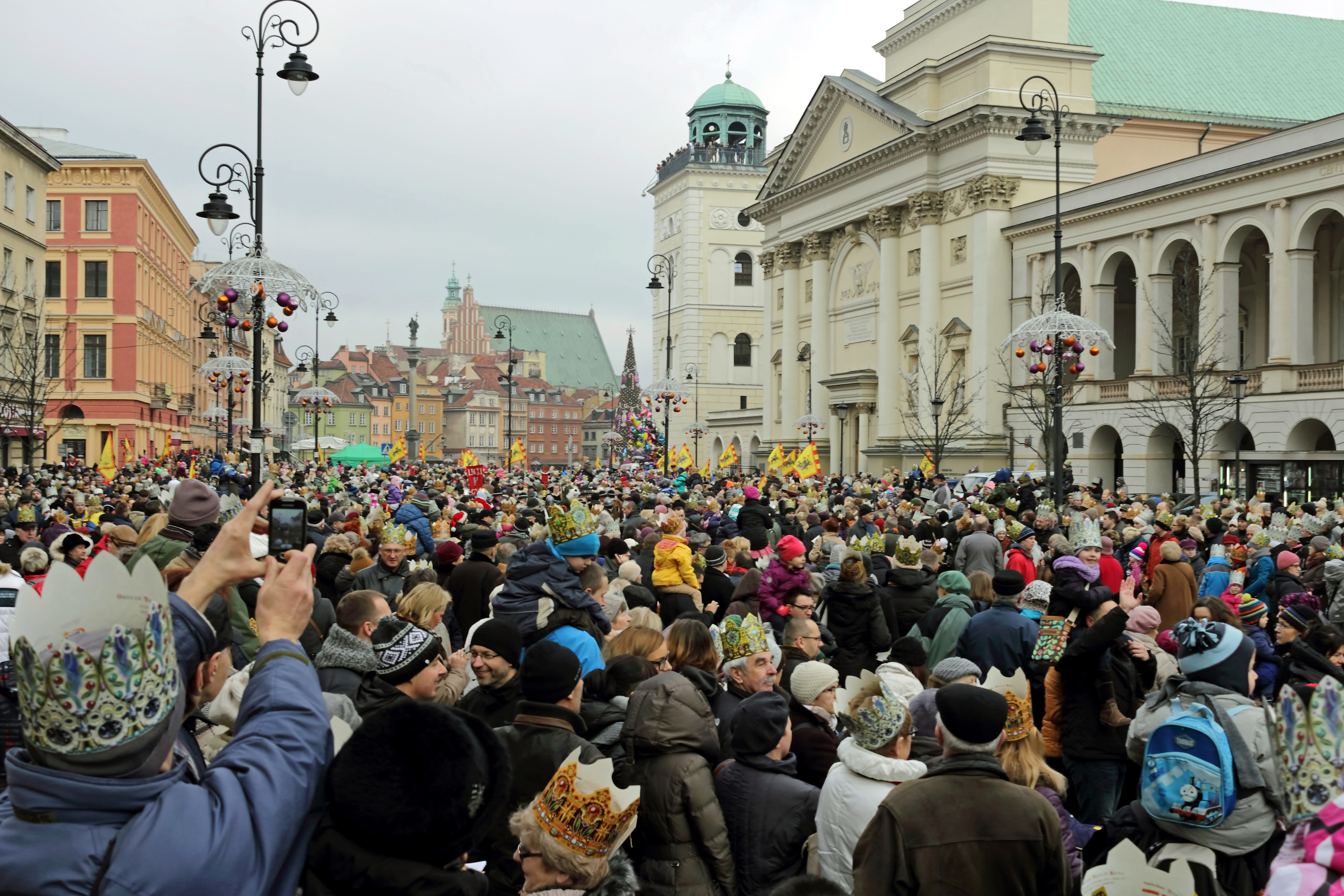 Wer dieses Bild benutzen möchte, der möge bitte den Link auf seiner Seite einbinden. If you want to use this picture, please implement the link on the website containing the picture.